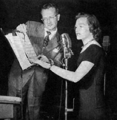 Photo of Paul Weston and Jo Stafford at work on her radio show. Weston was the conductor and arranger for many of Stafford's radio programs.